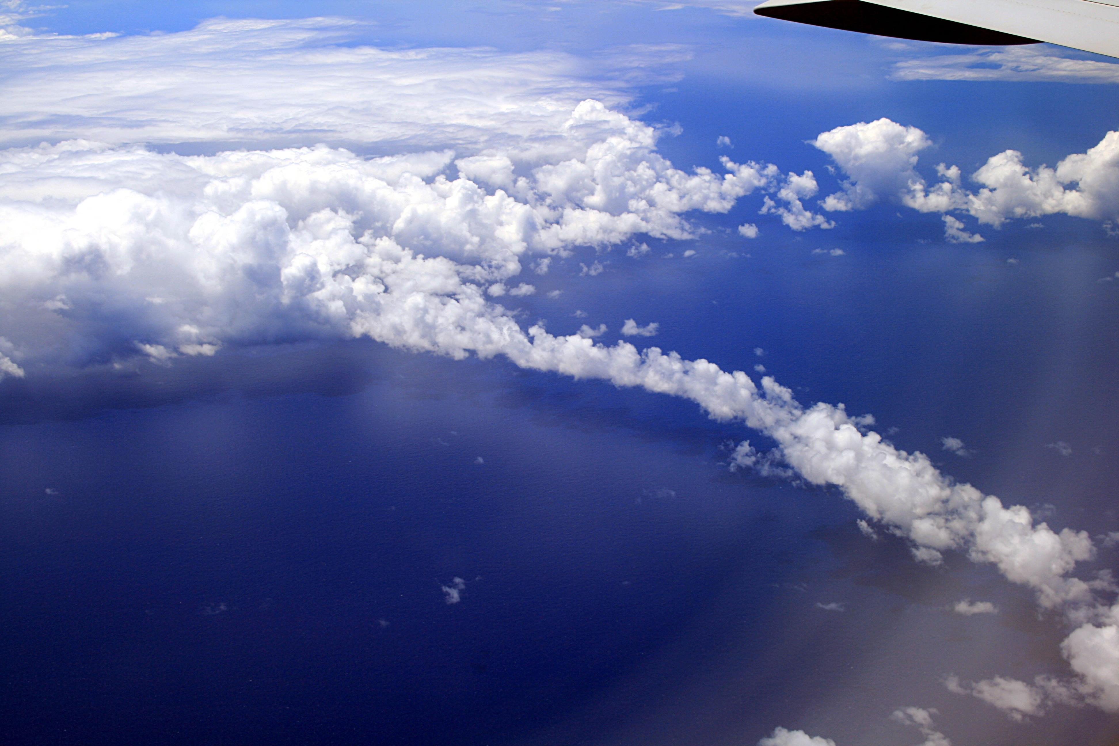 Clouds above Pacific. The picture also shows a cloud bow The picture was taken from a plane.